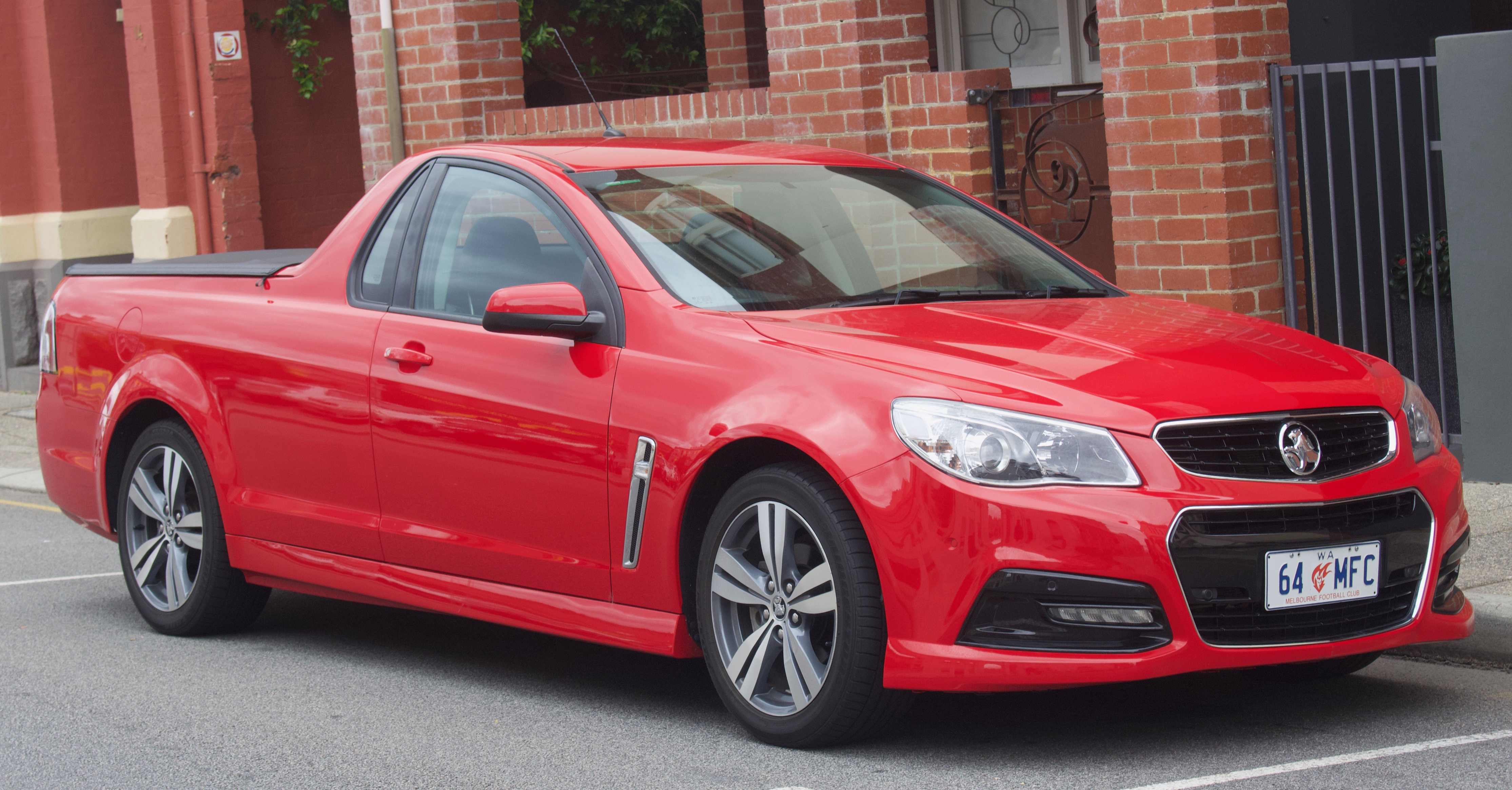 2014 Holden Ute (VF MY14) SV6 utility. Photographed in Fremantle, Western Australia, Australia.